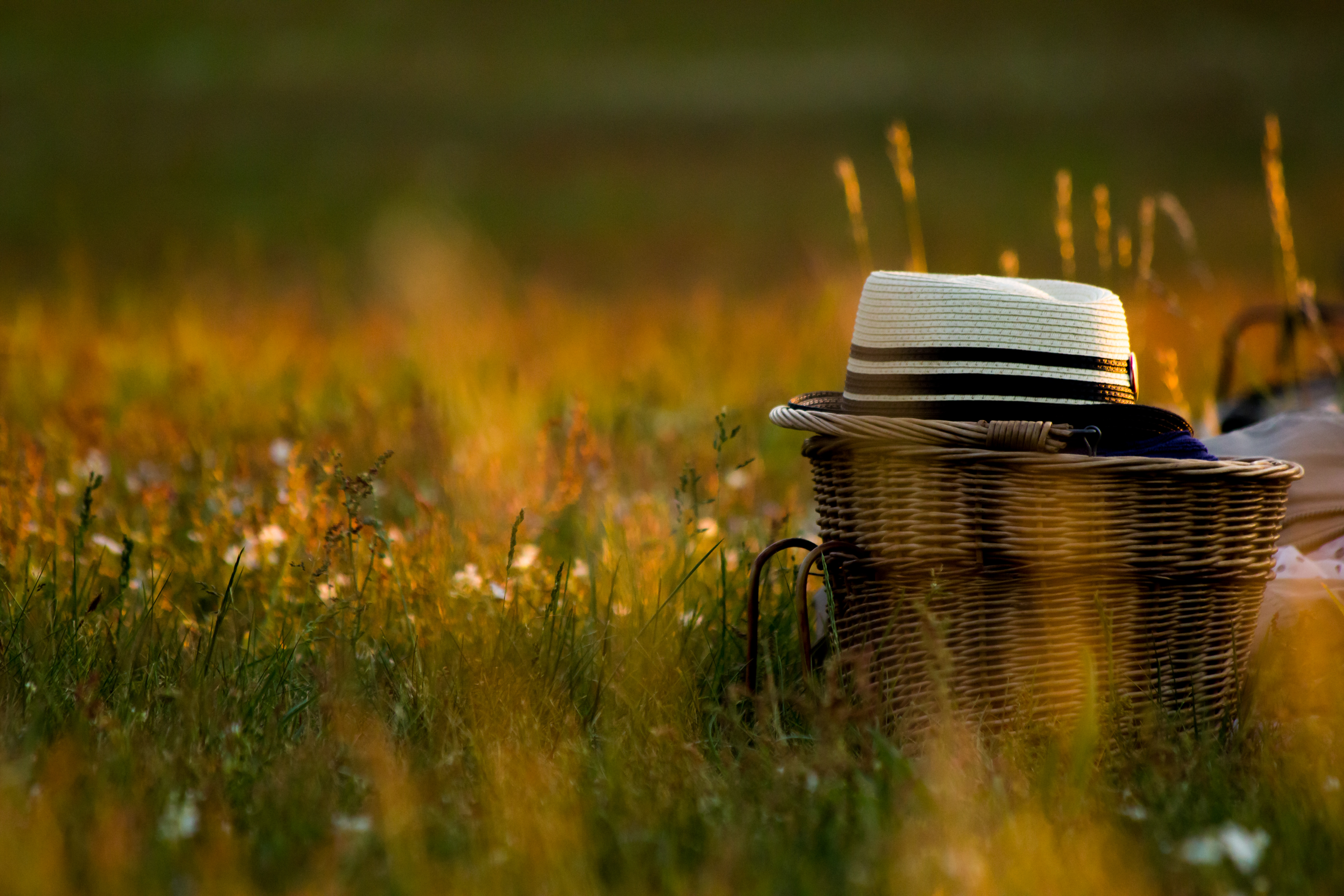 A Picnic basquet and a white hat in a garden.